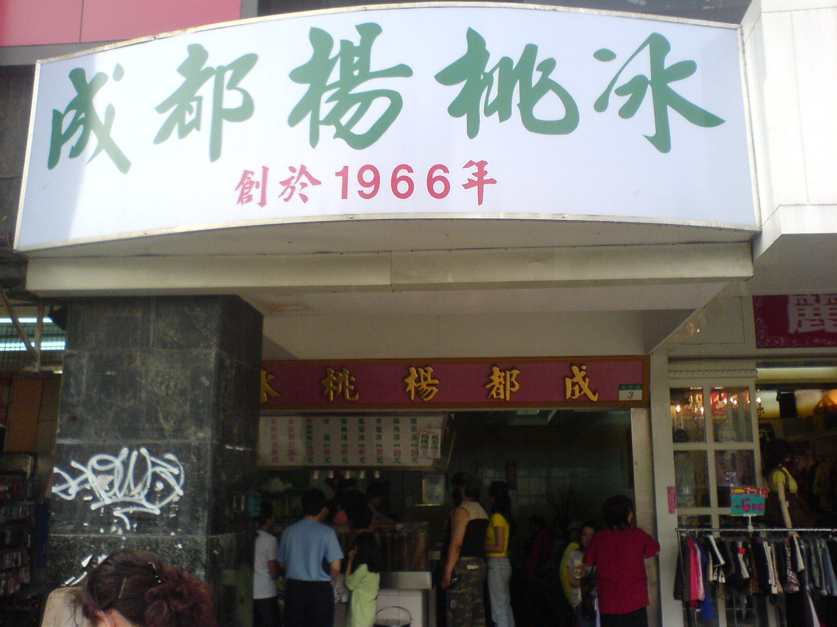 CHENGDU Starfruit Juice Shop in Ximending, Taipei.